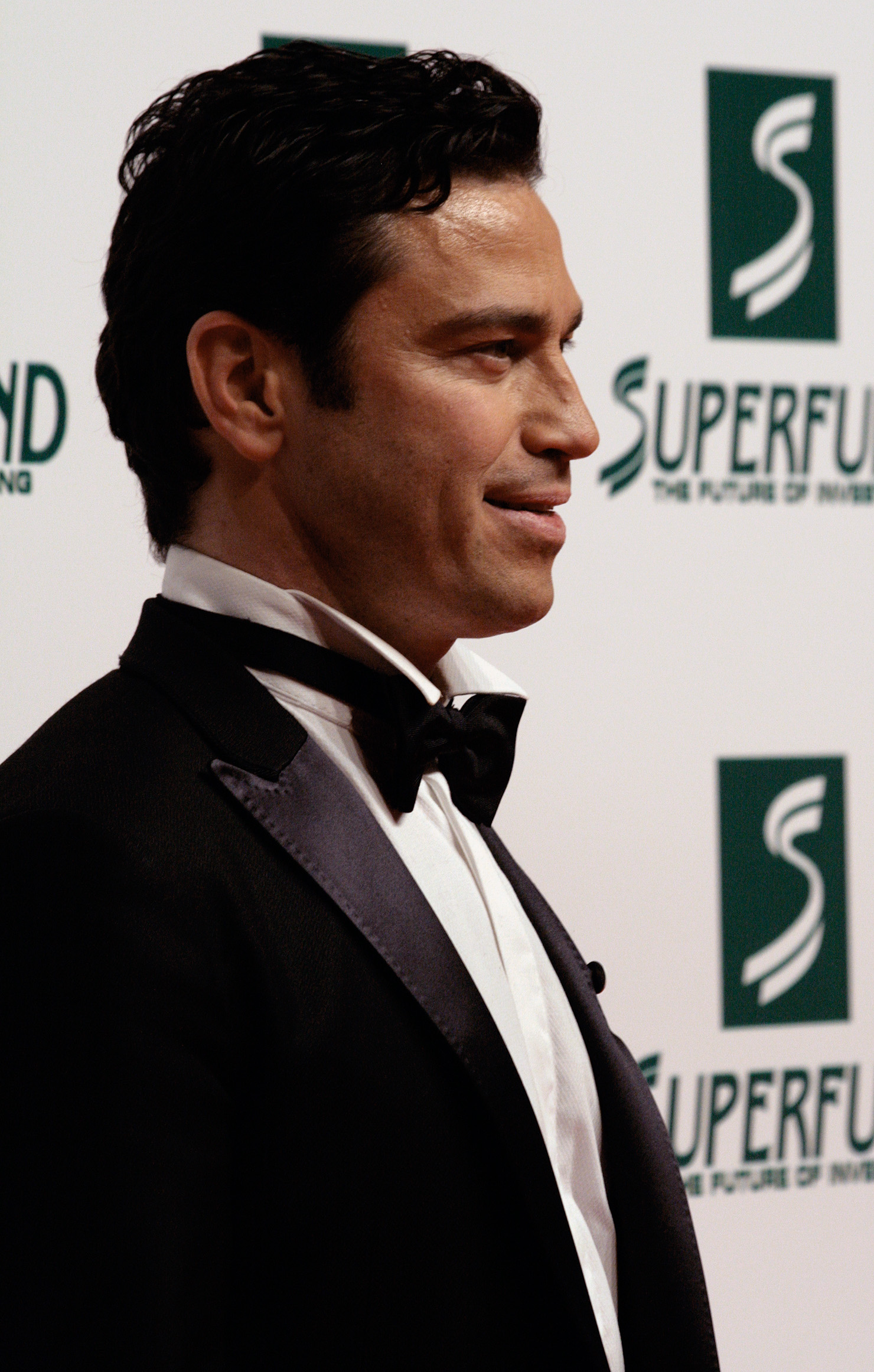 Mario Frangoulis at the Women's World Award 2009 (Wiener Stadthalle, Vienna, Austria).